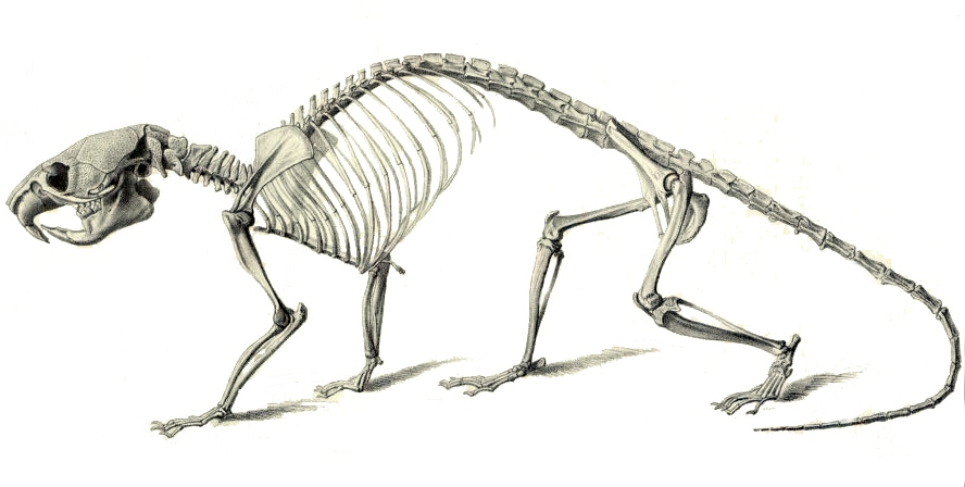 Lophiomys imhausi 's skeleton